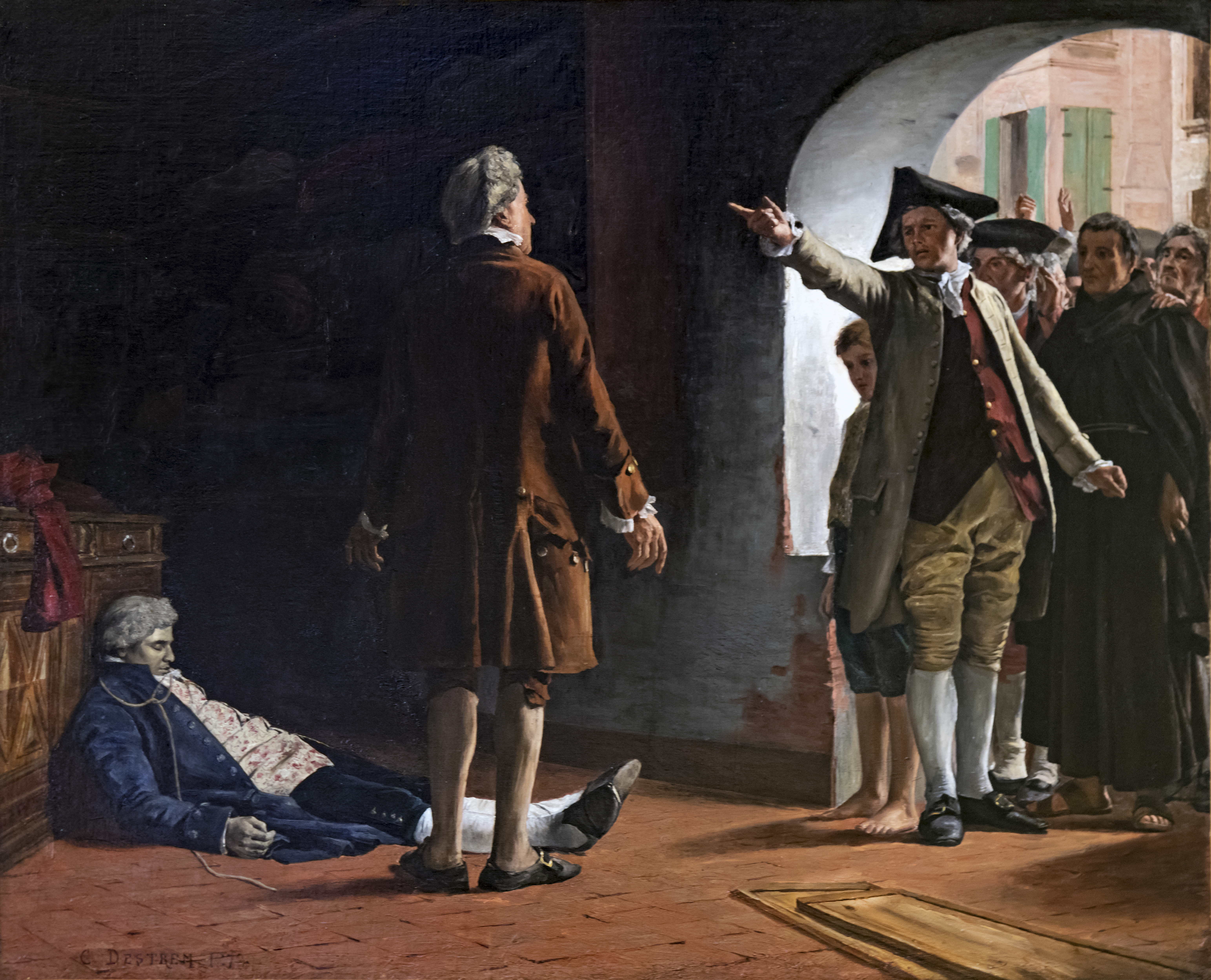 The ground floor of Maison Calas, rue de Fillatiers in Toulouse. The evening of the discovery of the body of Marc-Antoine Calas. Capitoul David de Baudrigue (tricorn) publicly accuses Jean Calas of the disguised murder of his own son.